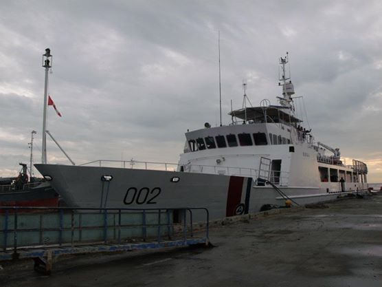 BRP EDSA II (SARV 002) docked at the port of Dumaguete City, Negros Oriental.